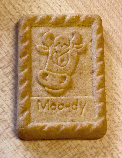 Cow biscuits - malted milk biscuits, first produced by Elkes Biscuits of Uttoxeter (now owned by Fox's Biscuits) in 1924 and produced in the UK by several companys